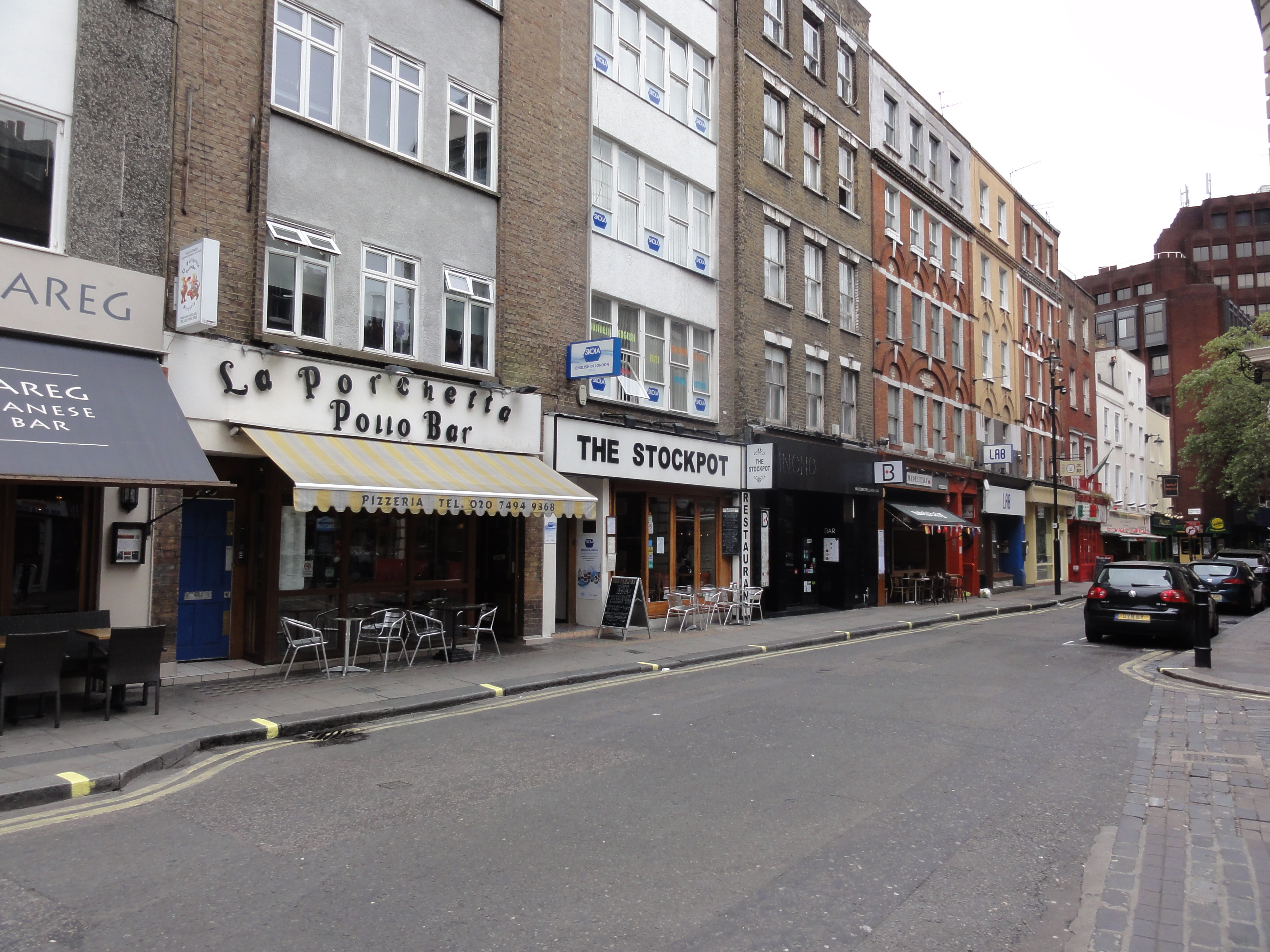 The final stretch of Old Compton Street, between Greek Street and Charing Cross Road.